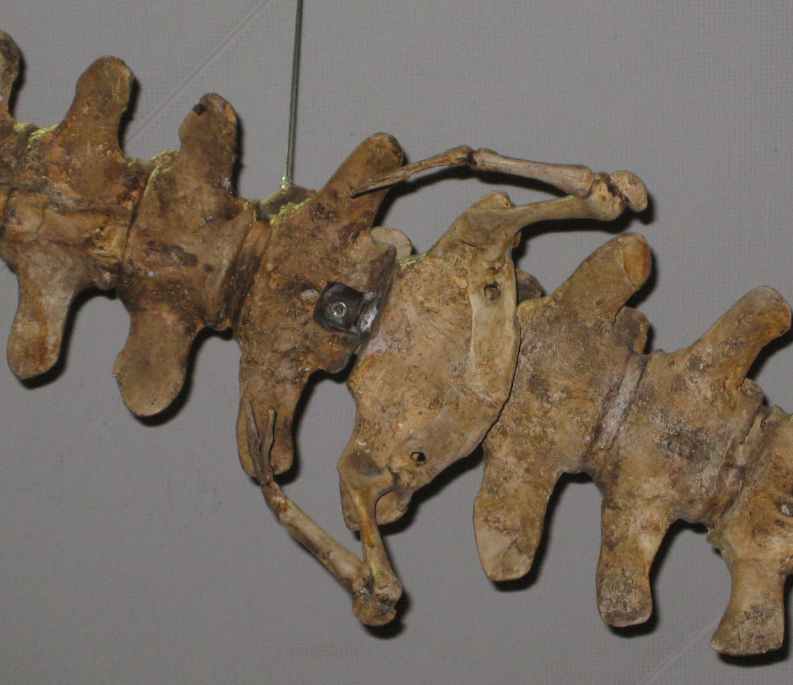 Dorudon pelvis (and vertebrae), an example of a vestigial organ, from a fossil specimen on display at the National Museum of Natural History, Washington, DC.